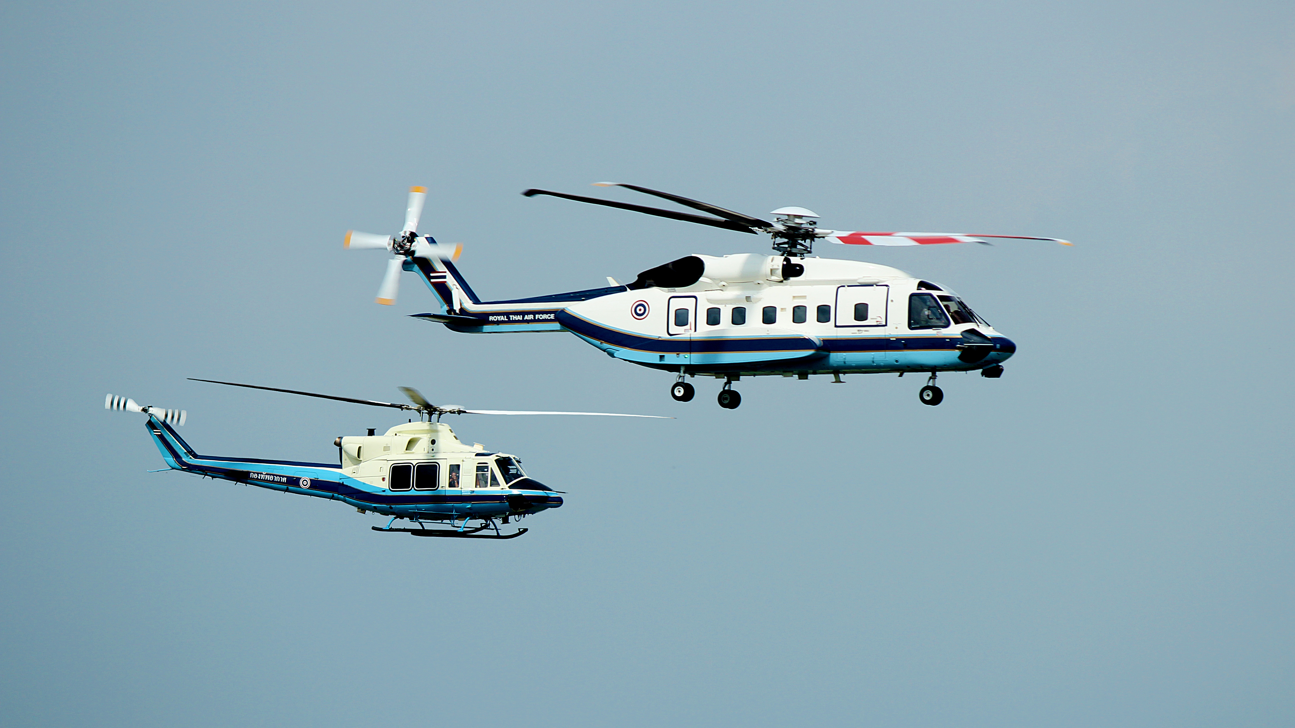 Royal Thai Air Force : Bell 412 and Sikorsky S92 for royal flight